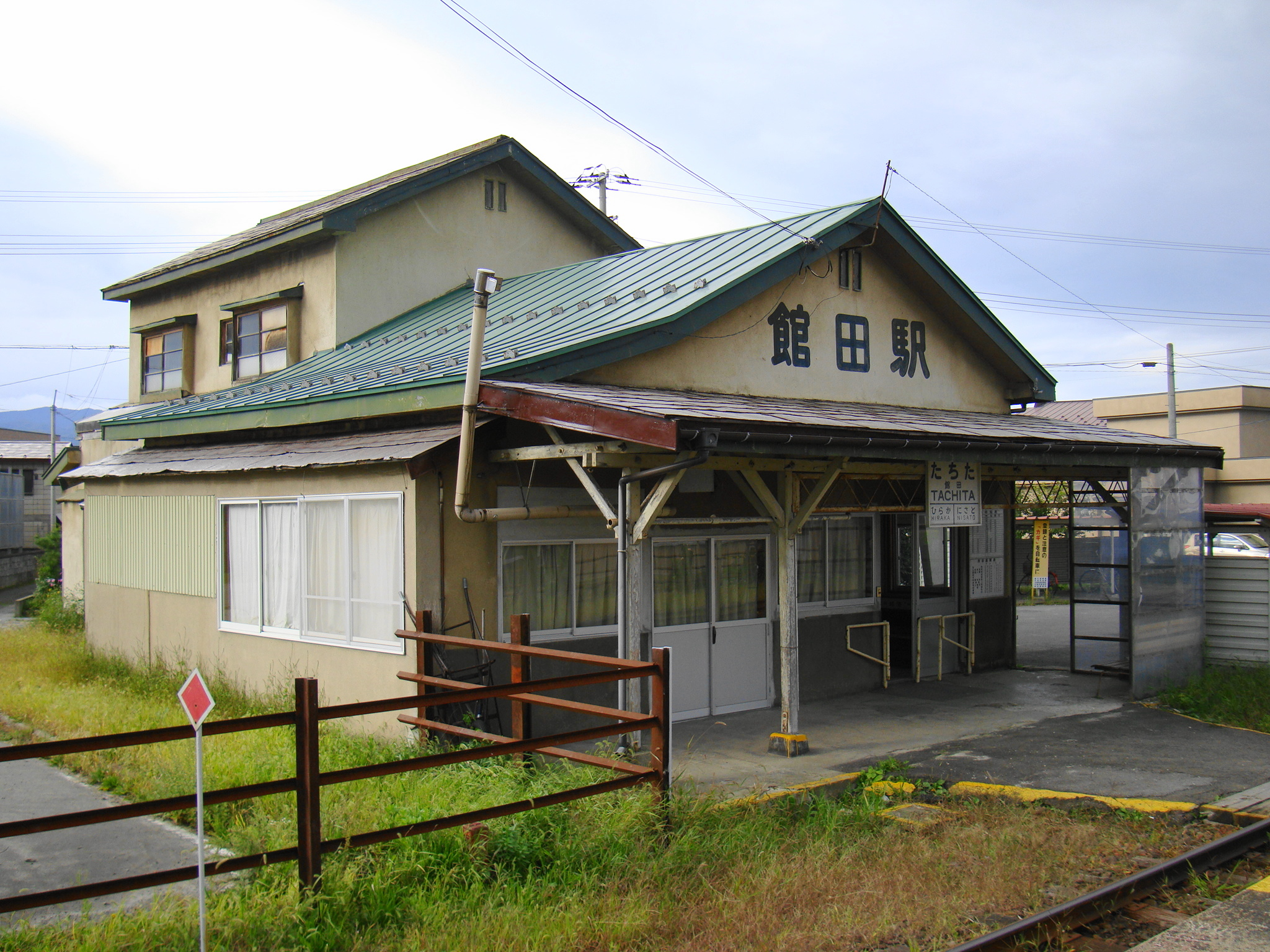 Tachita Station